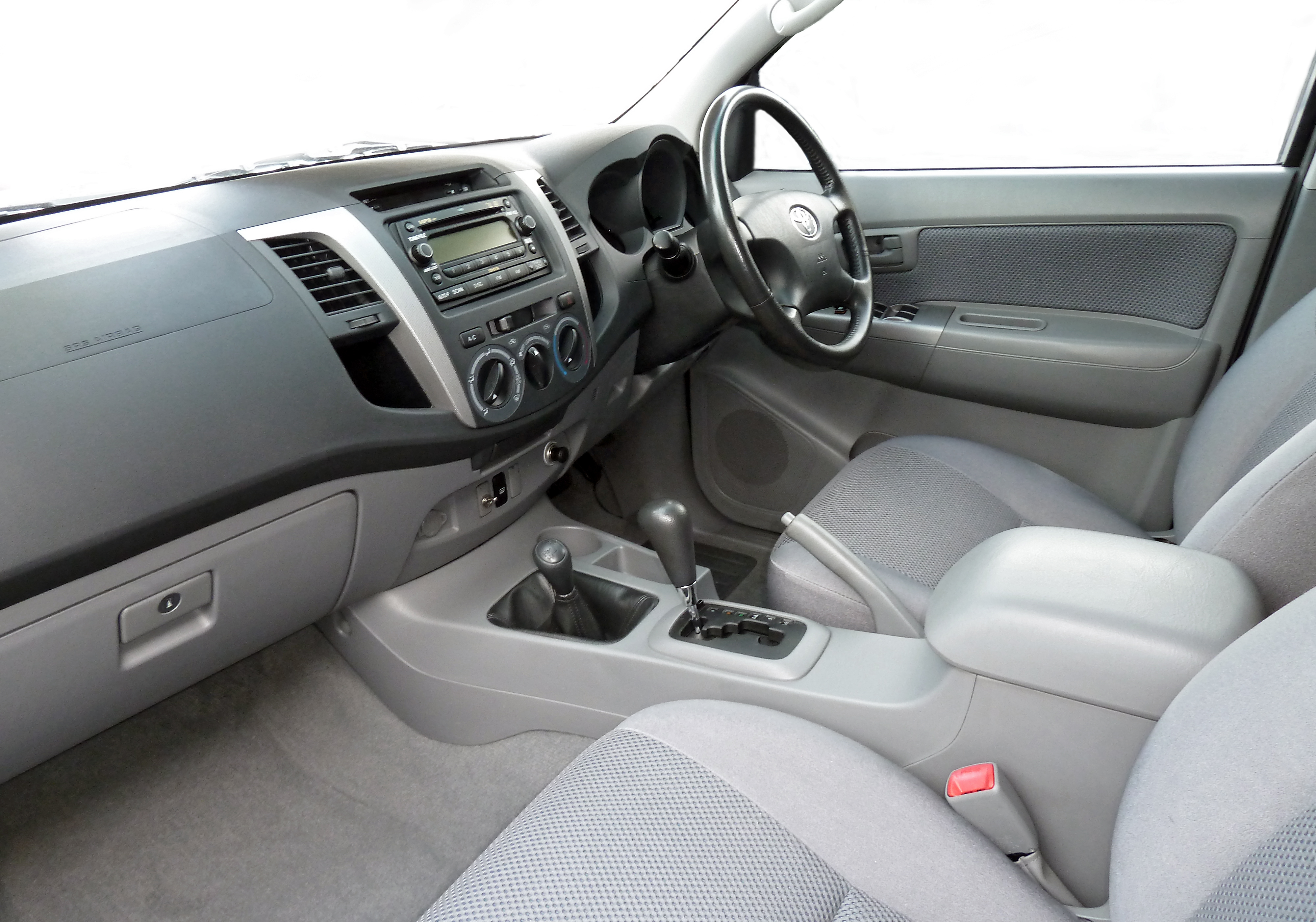 2006 Toyota HiLux (GGN25R MY05) SR5 4-door utility. Photographed at Tynan Motors, Kirrawee, New South Wales, Australia.